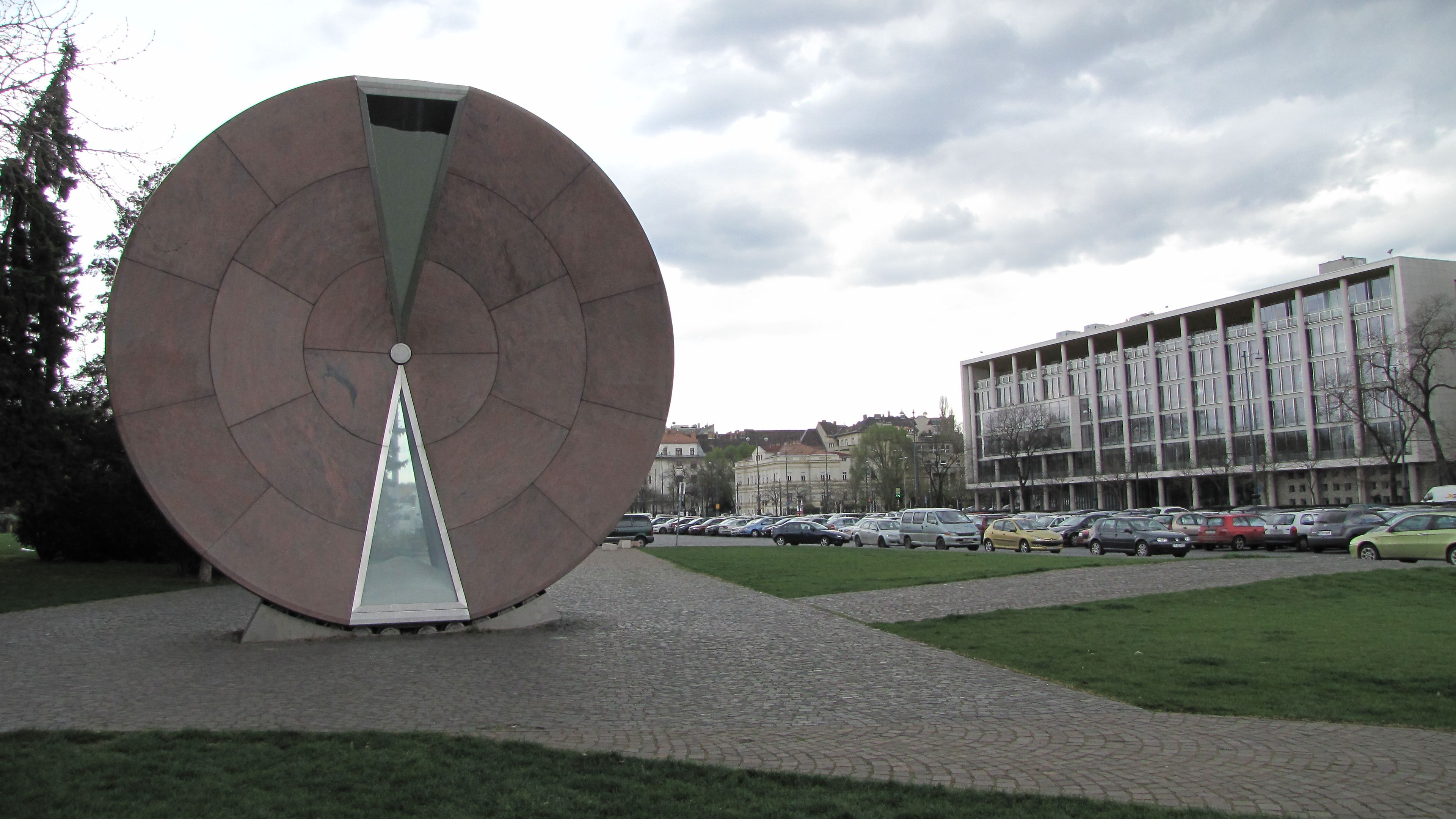 Time Wheel, Budapest.